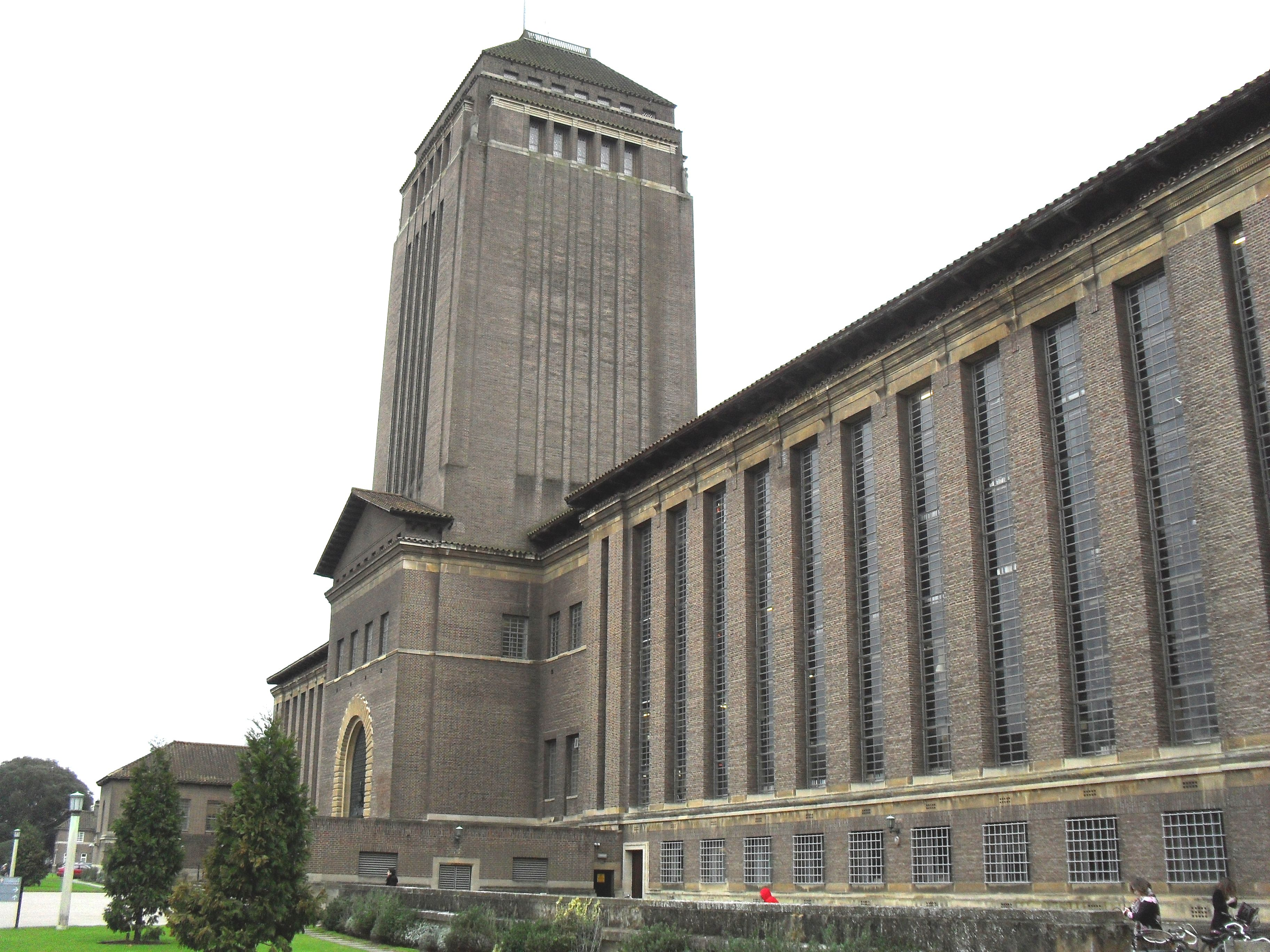 Cambridge University Library